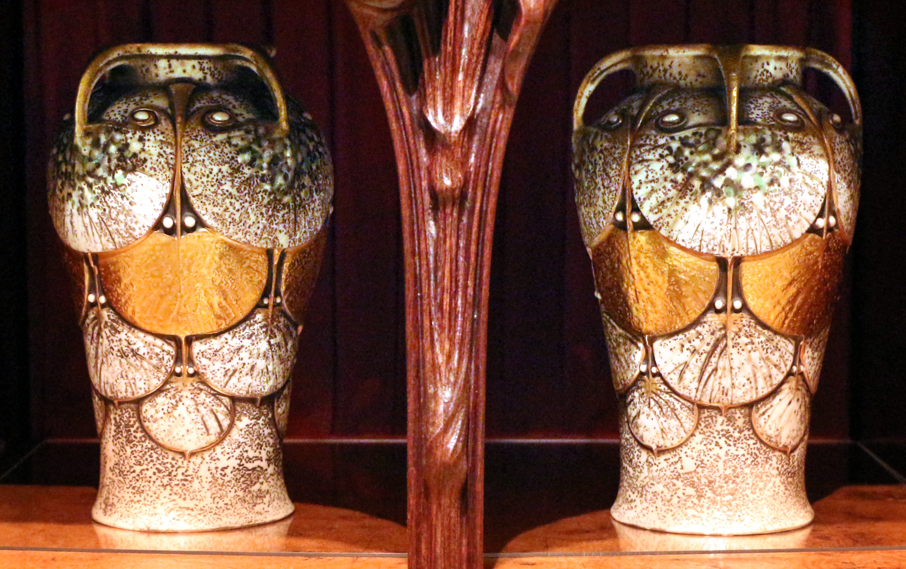 Pottery in the Indianapolis Museum of Art